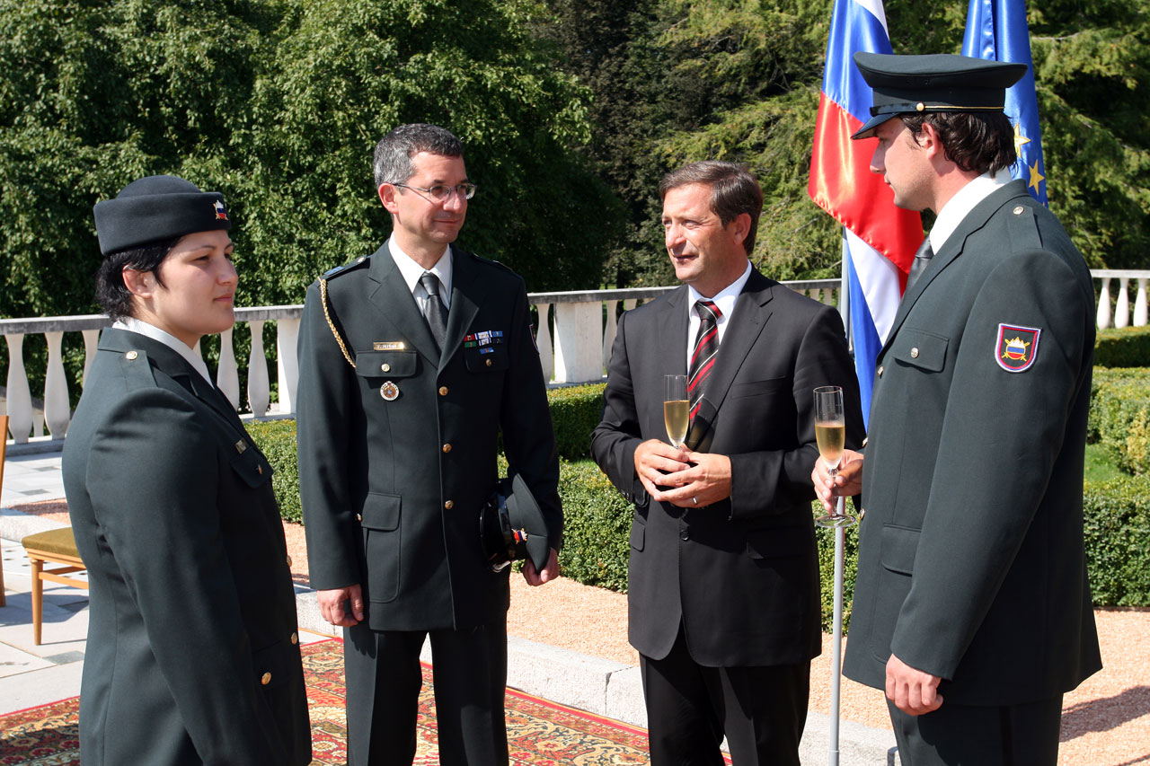 Karl Erjavec, Primož Kozmus, Rajmond Debevec and Lucija Polavder